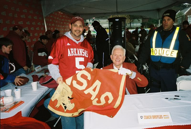 Coach Broyles Spring Game 2007